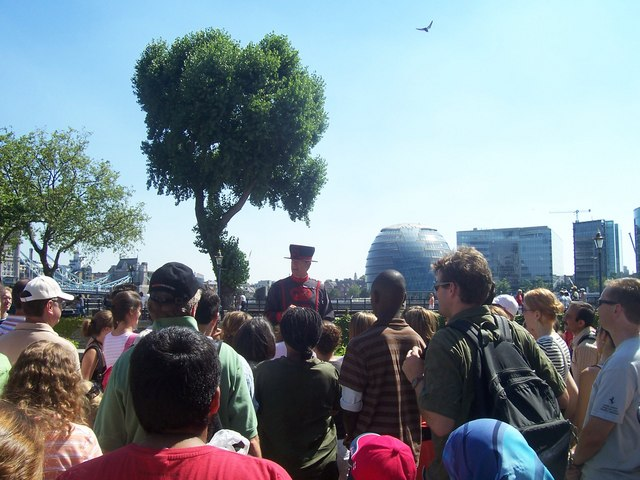 London : City of London - Tour Guide at the Tower of London Having a tour from a Beefeater at the Tower.